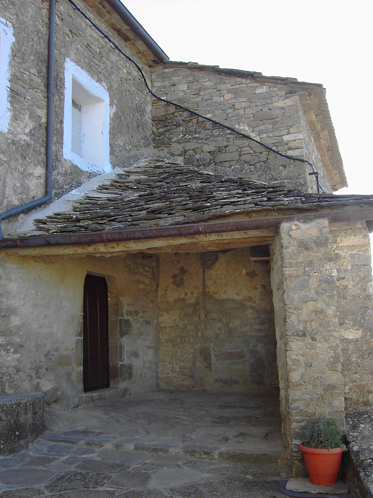 Porch in l'Eripol, Huesca, Spain.